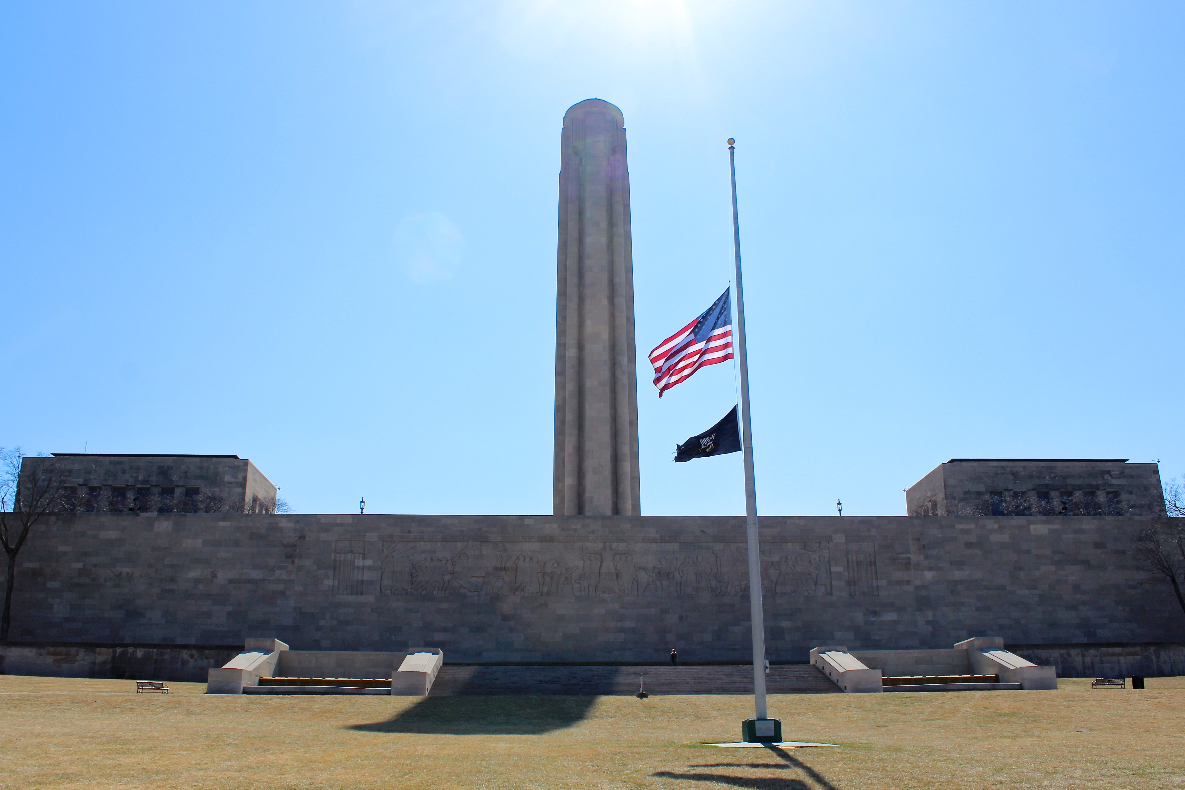 The National World War I Museum and Memorial as viewed from the northern lawn. The Liberty Memorial Tower rises in the center and contains the eternal flame. Memory Hall is at the left and Exhibition Hall on the right.